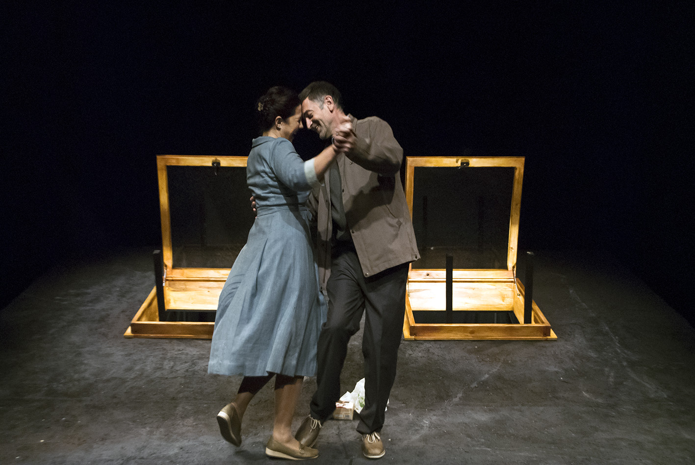 Zoran Cvijanovic (Serbian Actor) and Natasa Ninkovic (Serbian Actress) playing in Comedy Prah